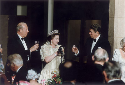 President Ronald Reagan toasting Queen Elizabeth II. Secretary of State George Shultz is at left.